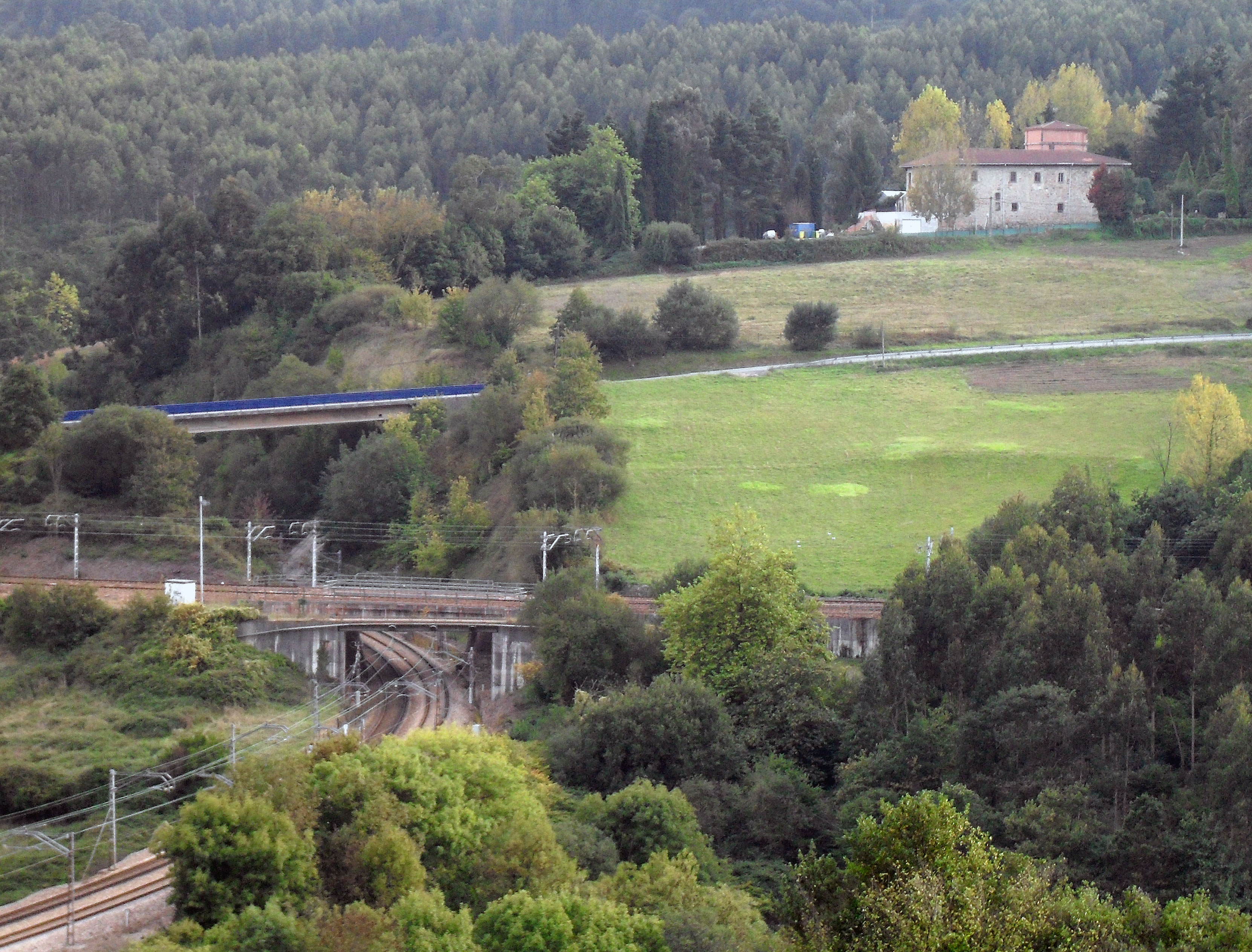 Palace of Villabona and cross of railway lines: León-Gijón (lower) and Villabona-San Juan de Nieva (upper)